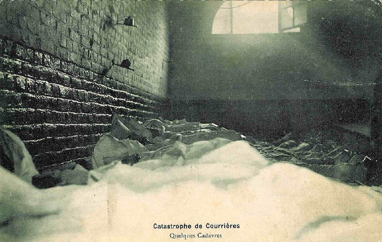 Courrières mine disaster, the tenth march 1906, in the towns of Billy-Montigny, Sallaumines, Méricourt and Noyelles-sous-Lens.